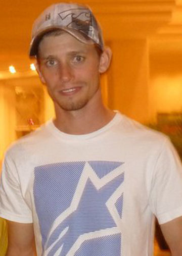 Casey Stoner after MotoGP testing in Malaysia 2011